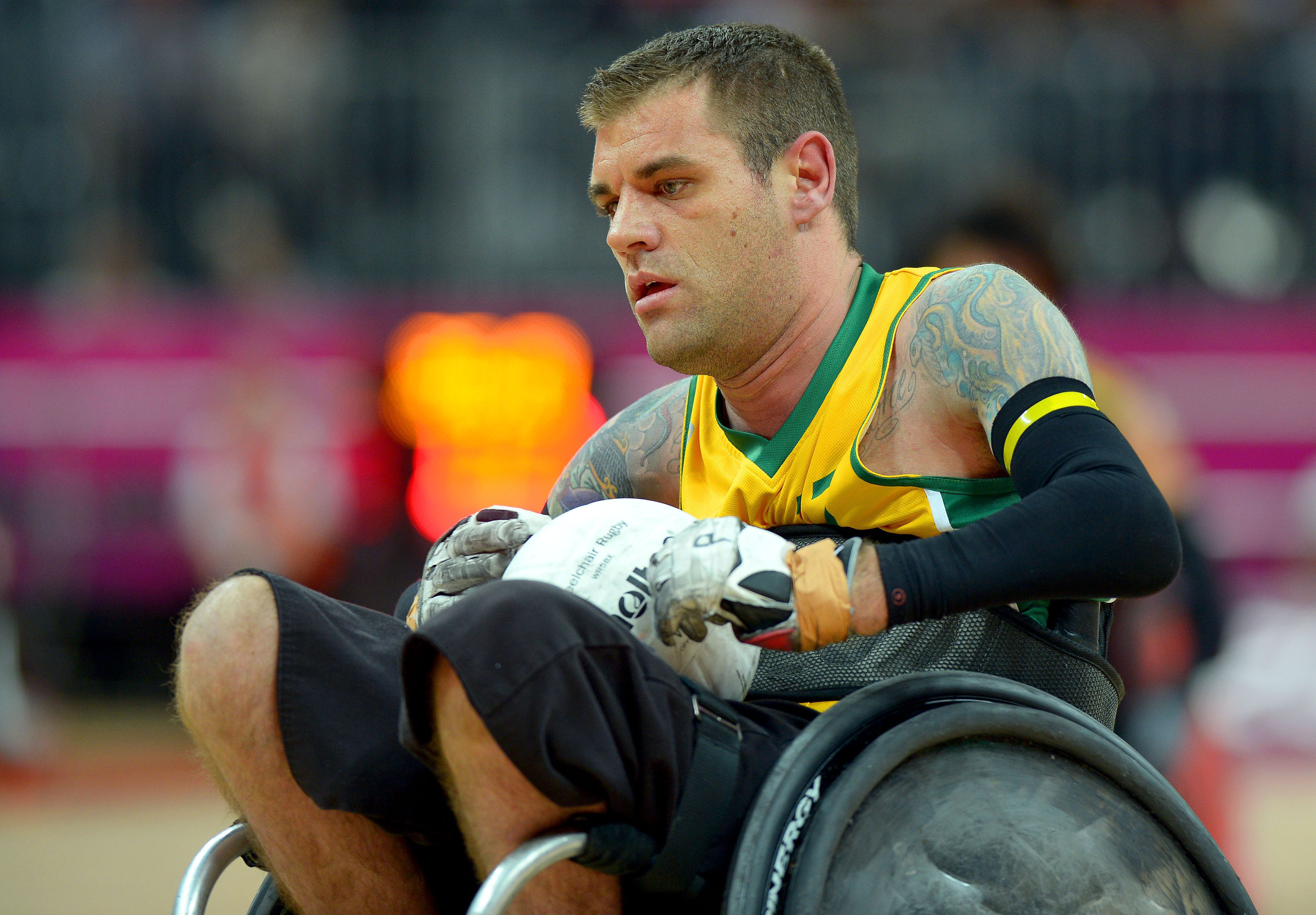 Photograph of Australian Paralympic team member Ryan Scott at the 2012 Summer Paralympic Games in London